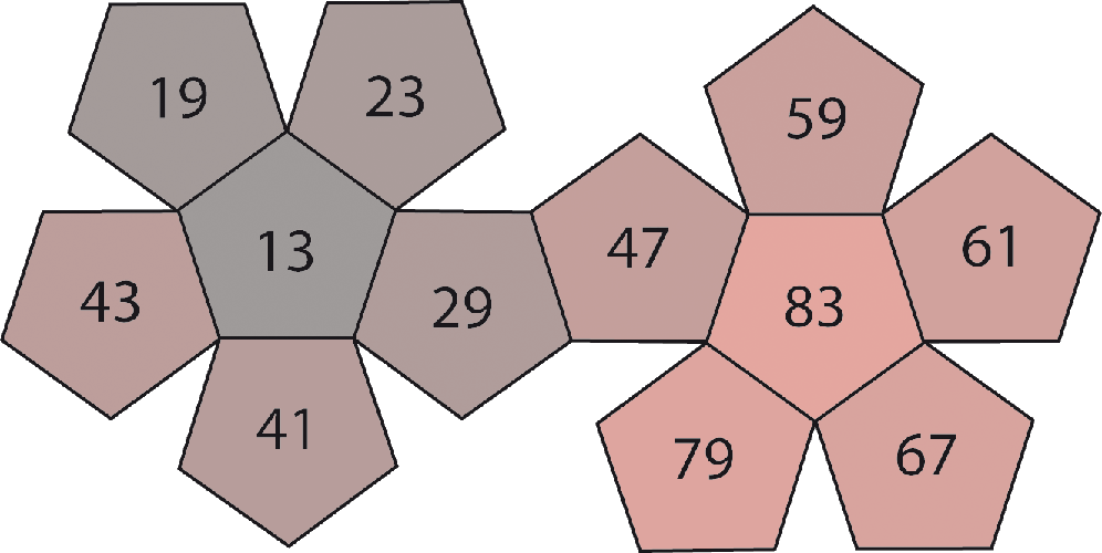 nontransitive prime-numbers-dodecahedron PD 12